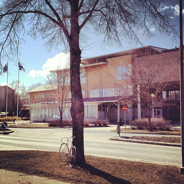 Parainen library